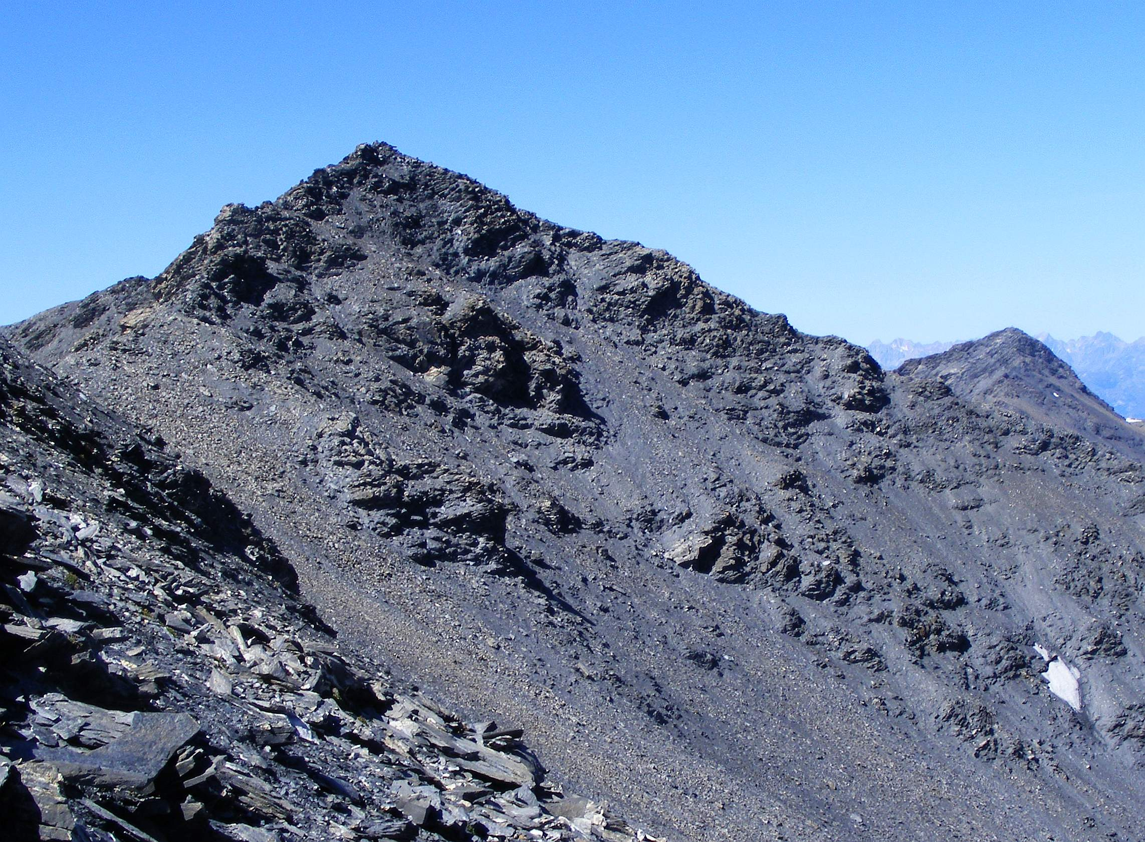 Punta Bagnà (3.129 m; Cottian Alps, french-italian border) as seen from Cima del Gran Vallone